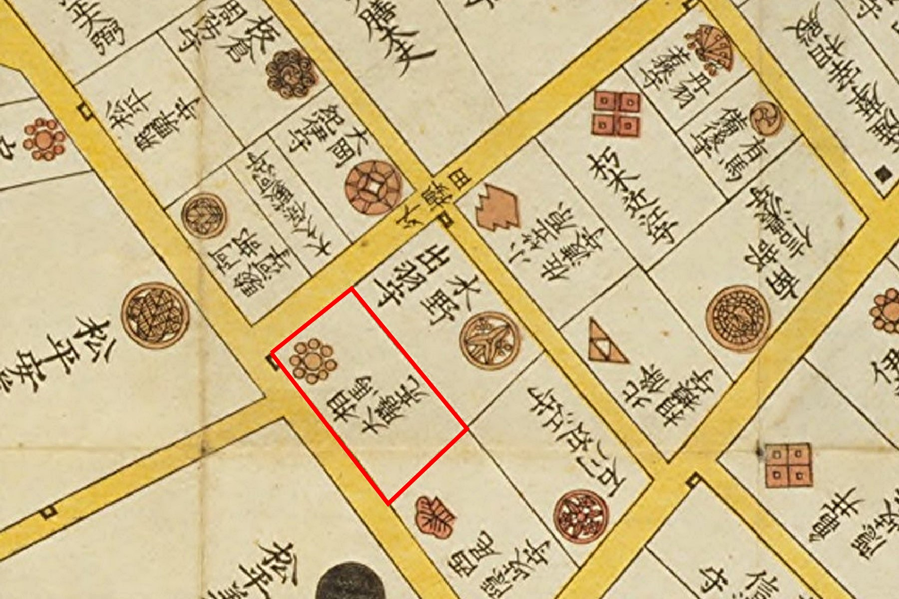 Residence of Sôma clan at Edo